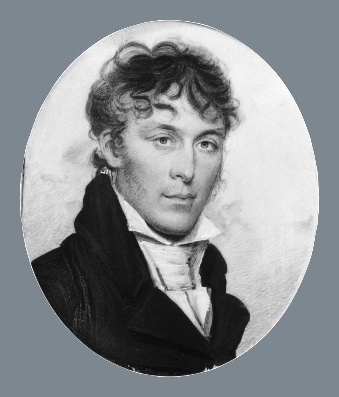 Charles Floyd circa 1804 date QS:P,+1804-00-00T00:00:00Z/9,P1480,Q5727902, watercolor on ivory, 2 9/16 x 2 1/64 in. (6.5 x 5.1 cm)